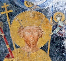 Fresco of Stefan Lazarević in Manasija monastery, near Despotovac, Serbia.